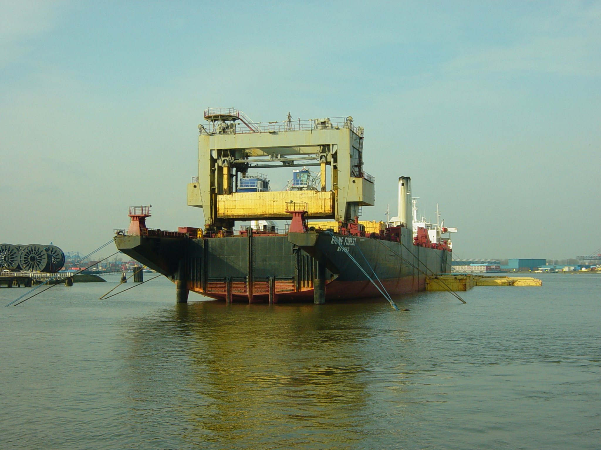 Lash carrier "Rhine Forest", "Majuro" (Marshall Islands) (built 1972, "Bilderdyk" until 1986, IMO 7125706, broken up 2008) 2006 in Waalhaven of Rotterdam, The Netherlands